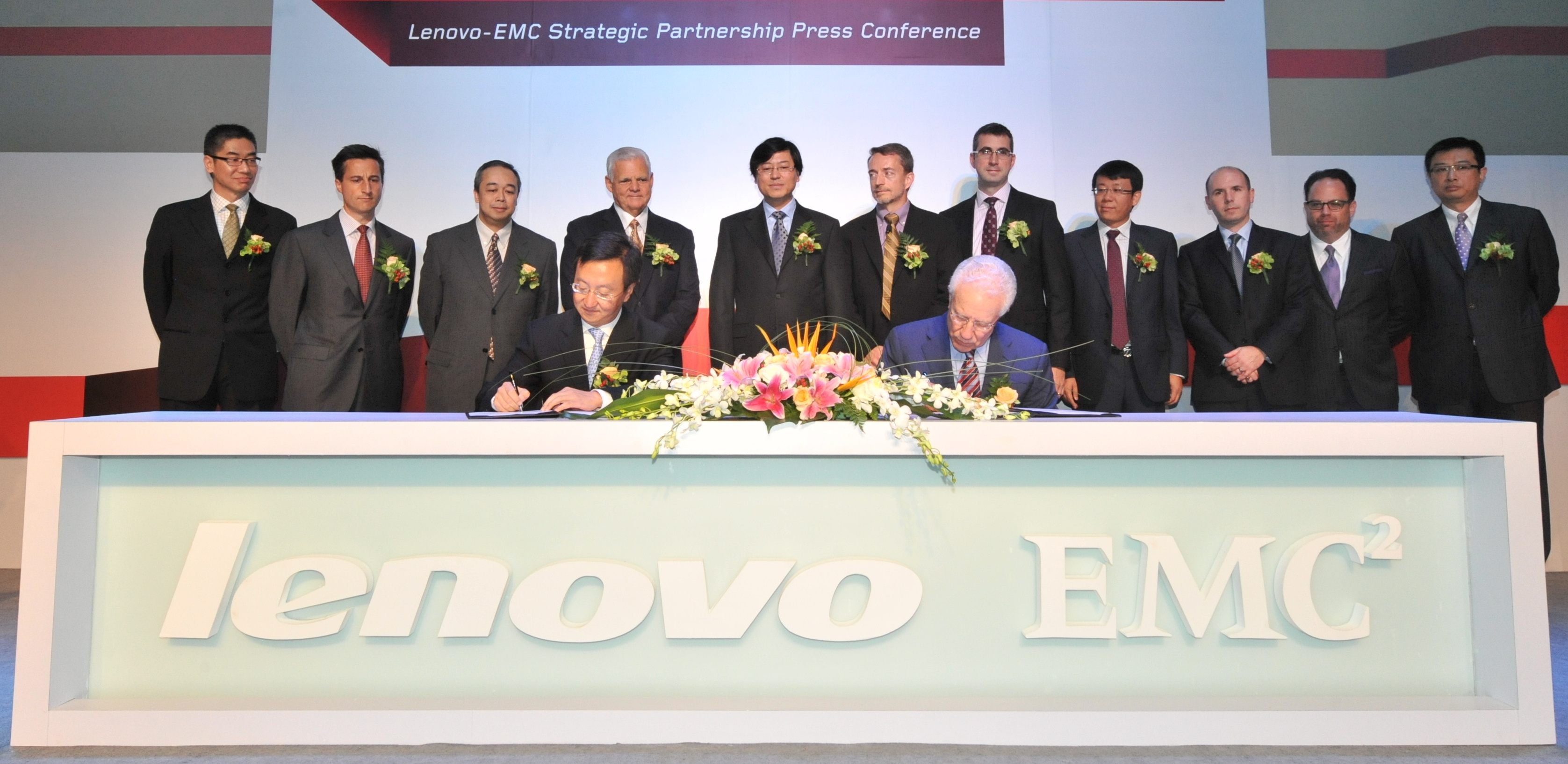 Lenovo and EMC2 signing the agreement for their joint venture